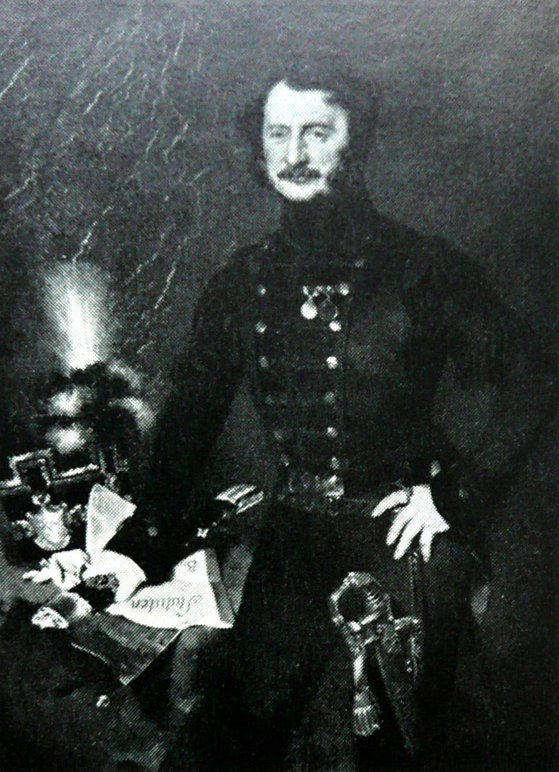 This image shows Carl Friedrich August Freiherr Dathe von Burgk (1791-1872). Dathe von Burgk was owner of a coal and iron company in Freital. He was one of the most successful indutrialist in Saxony during the 19th century.